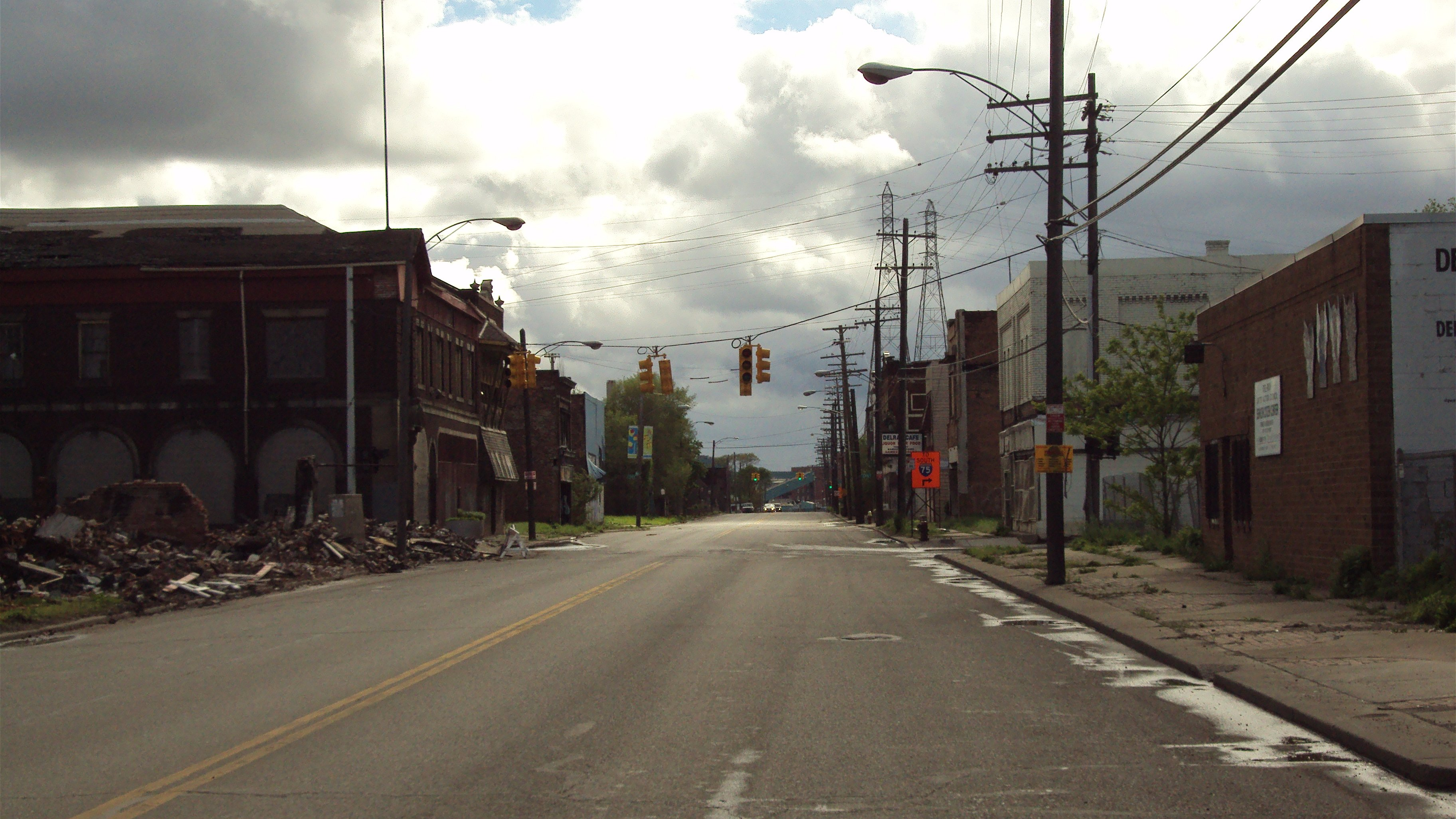 Delray, Detroit MI on W. Jefferson Ave. approaching West End Street.